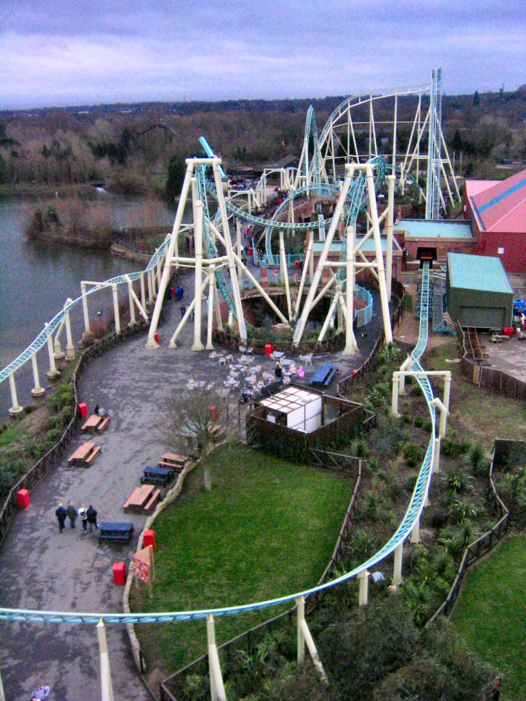 Thorpe Park - Colossus Implement using sharpened thumbnail: image:tp colossus small.jpg Date: 20th March 2004 14:27 1 Photograph: ed g2s • talk